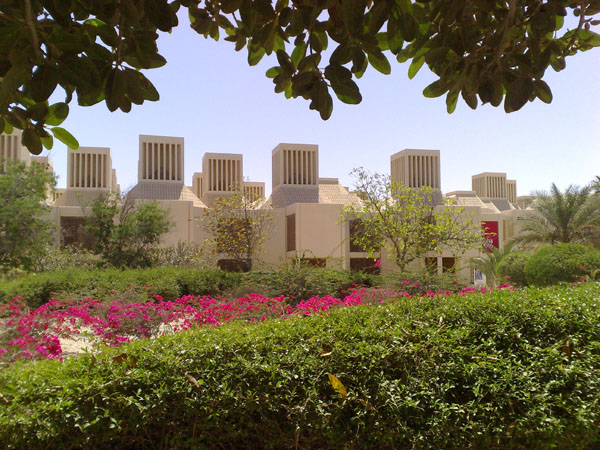 Qatar University Logo